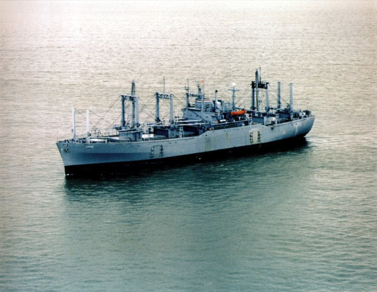 USS Comet (T-AKR-7) underway, date and place unknown. - or SS Comet (T-AKR-1)